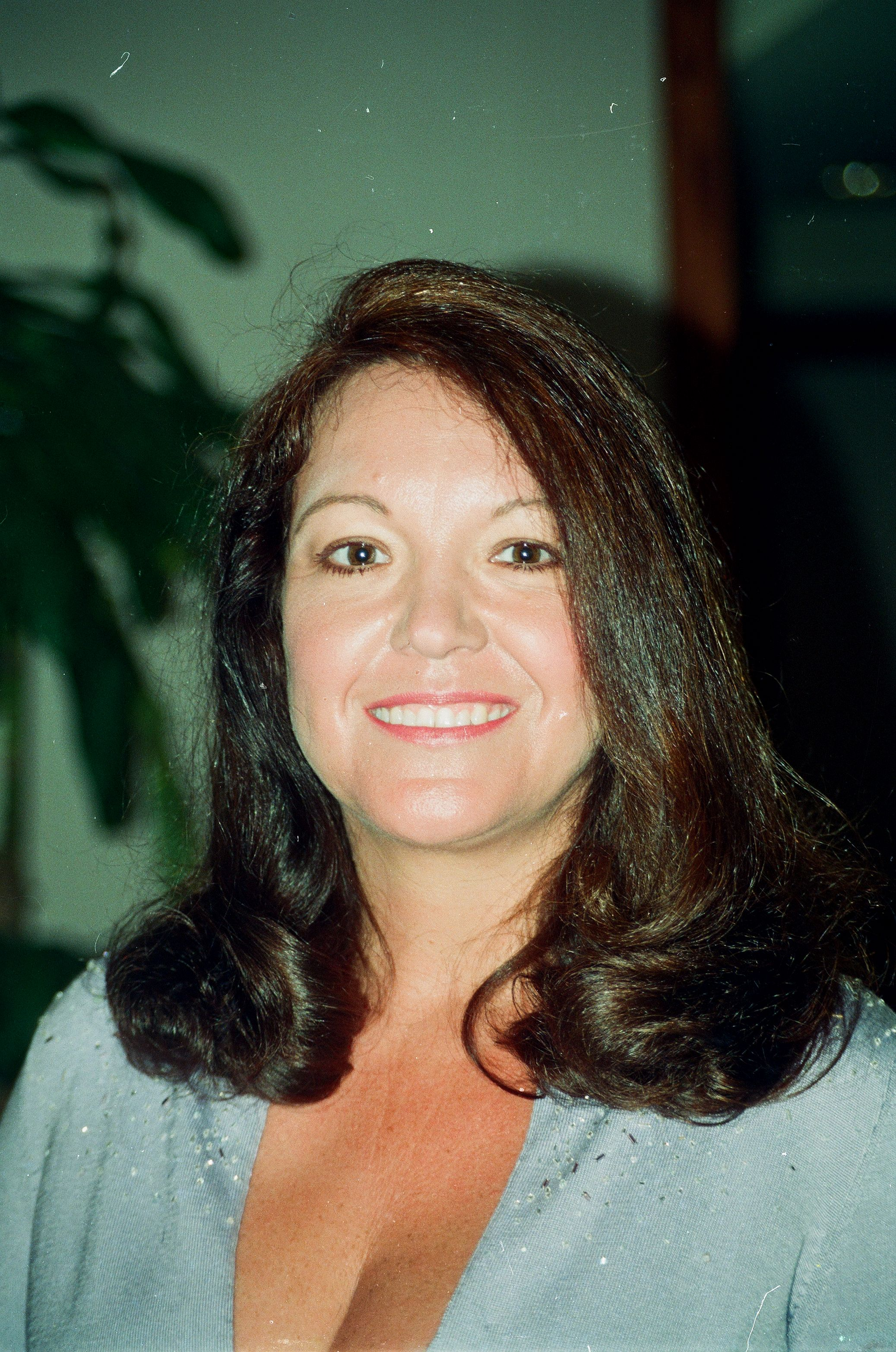 Wash D.C. May 1, 1999 White house correspondents dinner